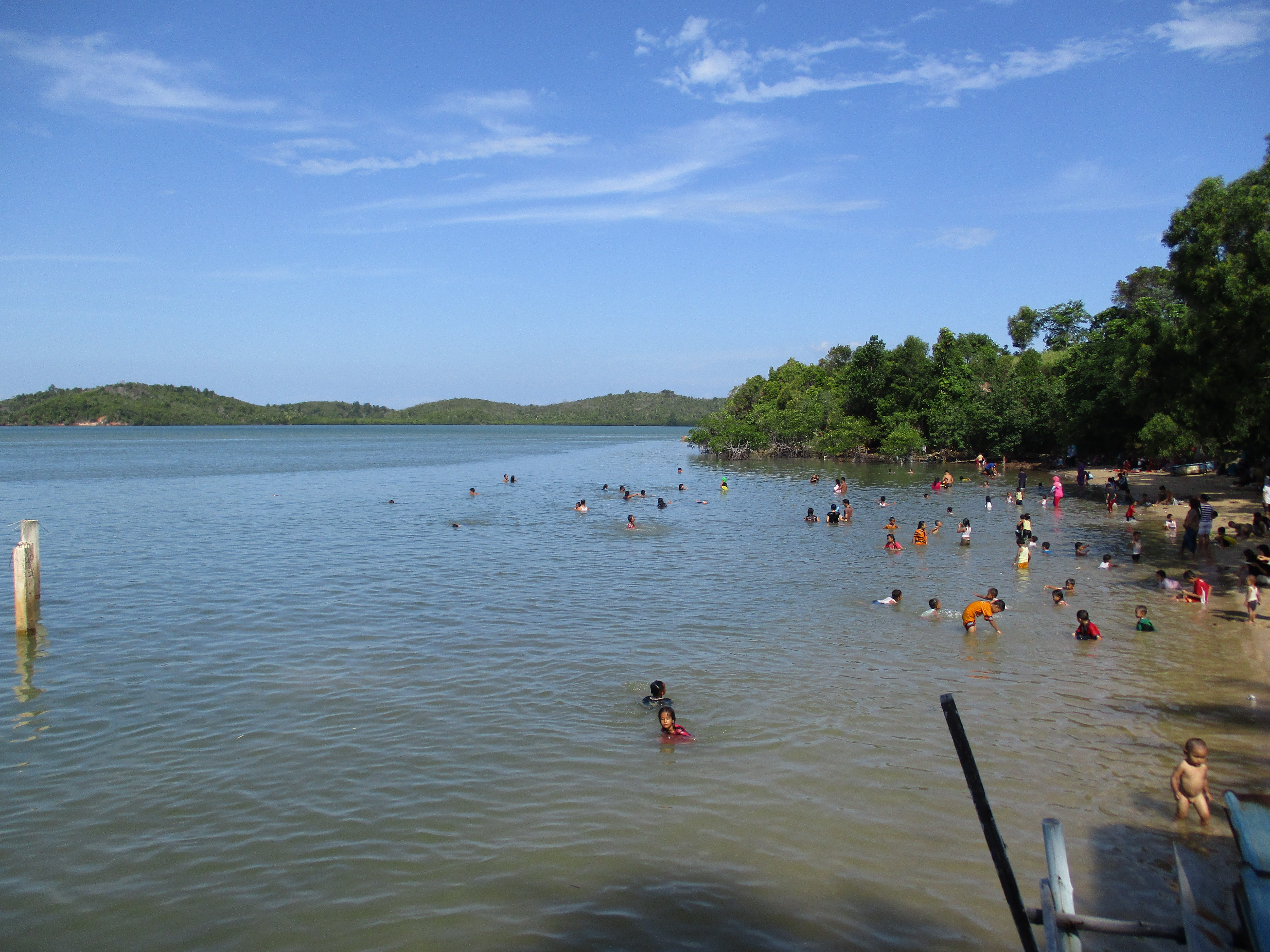 Tanjung Piayu Batam Island